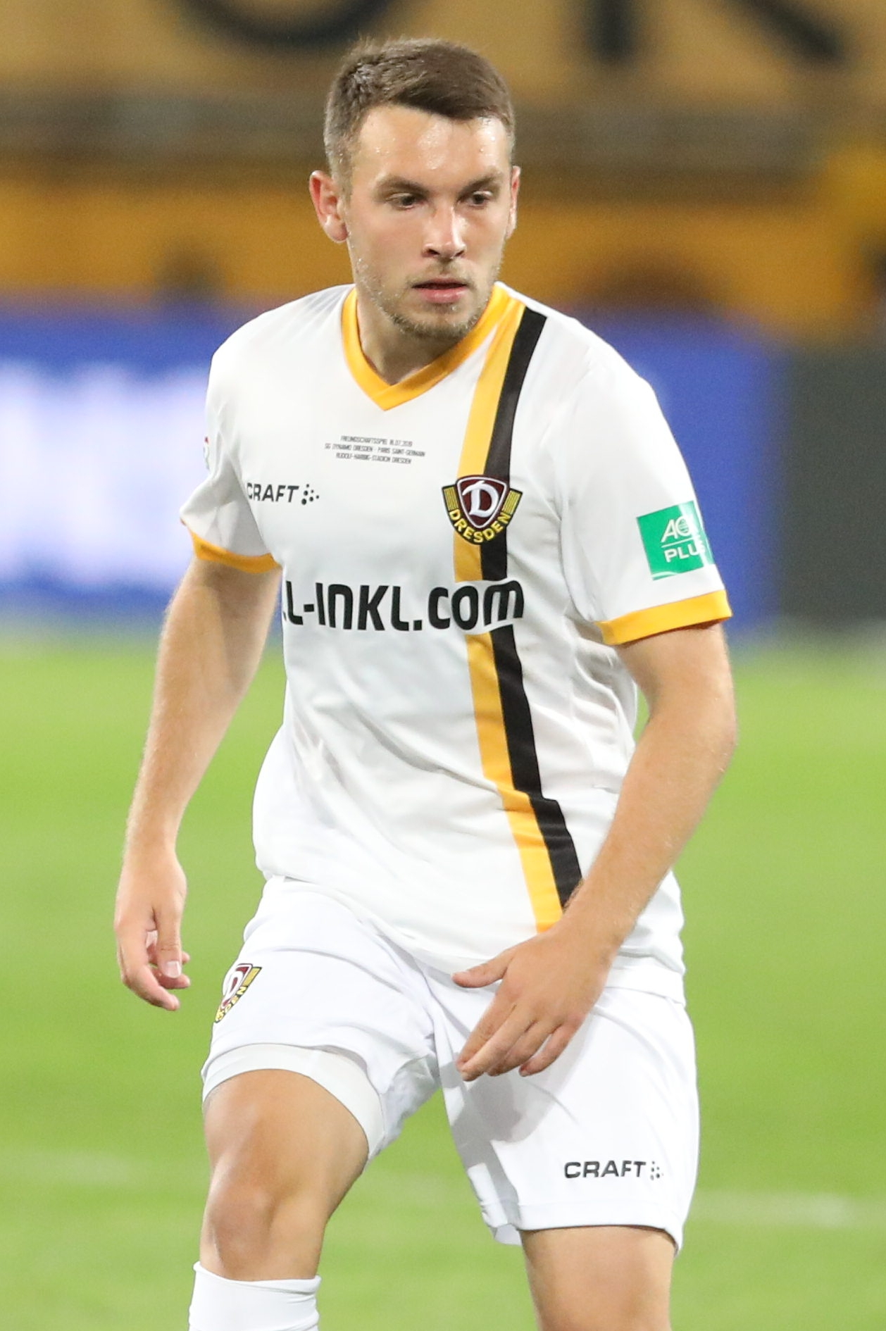 Test game, 17th July 2019: SG Dynamo Dresden vs. Paris Saint-Germain 1:6 (0:3)